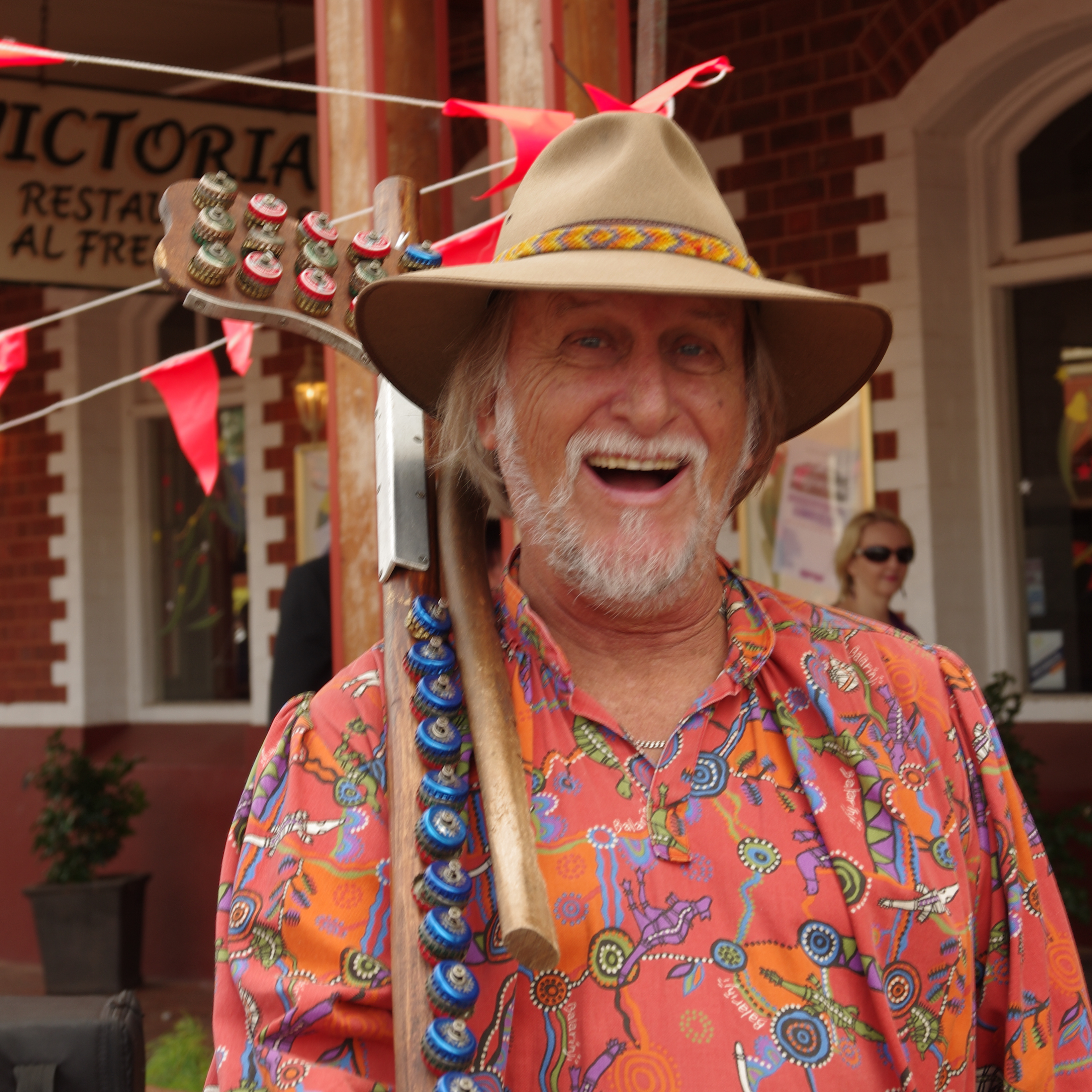 Moondyne Festival 2013, an annual festival in Toodyay Western Australia where residents dress in period cotumes and perform street theatre in relation to events surrounding the life of Moondyne Joe. Musician Greg Hastings, at the time of the photograph he was touring the "Wandering in the Bush Childrens show"[1]